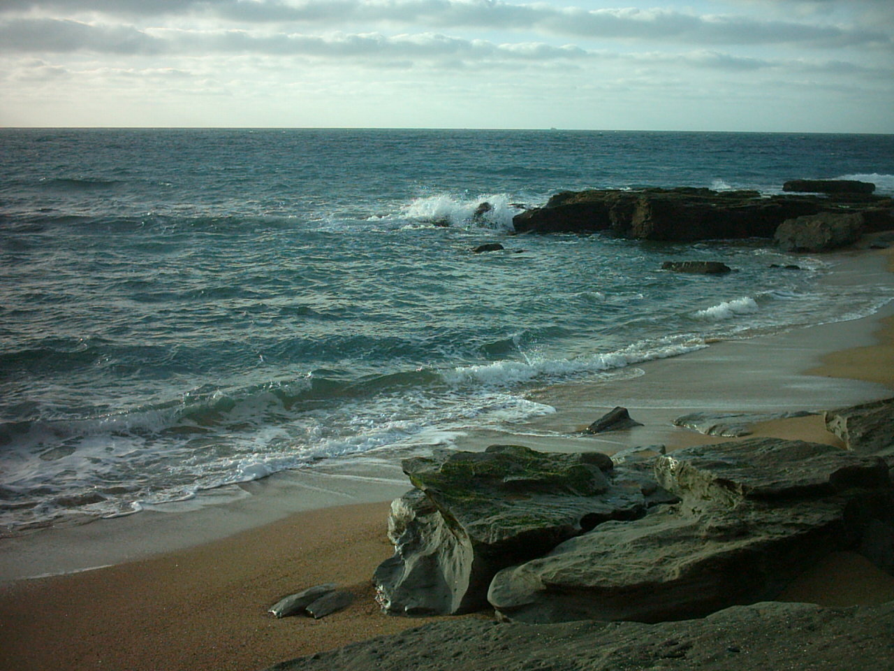 PB